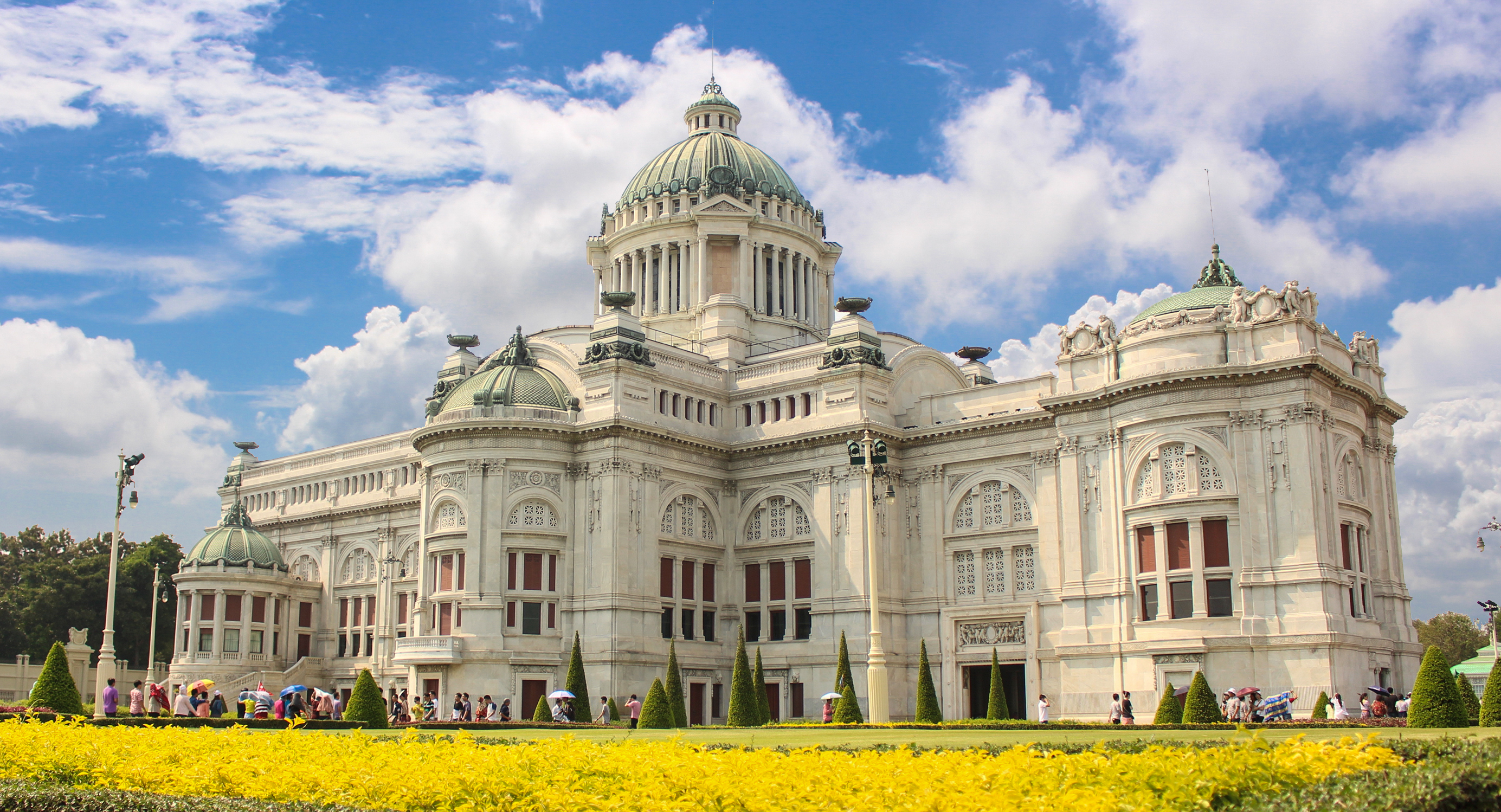 Ananta Samakhom Throne Hall, Dusit District, Bangkok